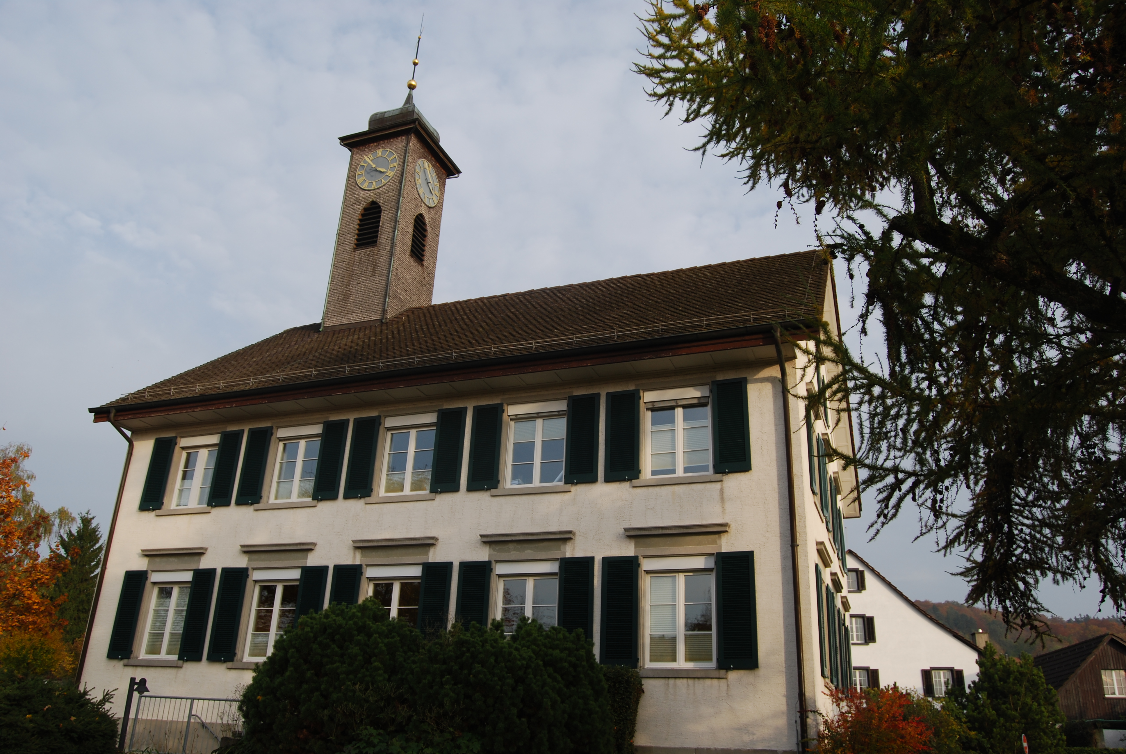 Winkel - municipal hall, canton of Zürich, SwitzerlandEsperanto: Winkel - komunuma domo, Kantono Zuriko, Svislando